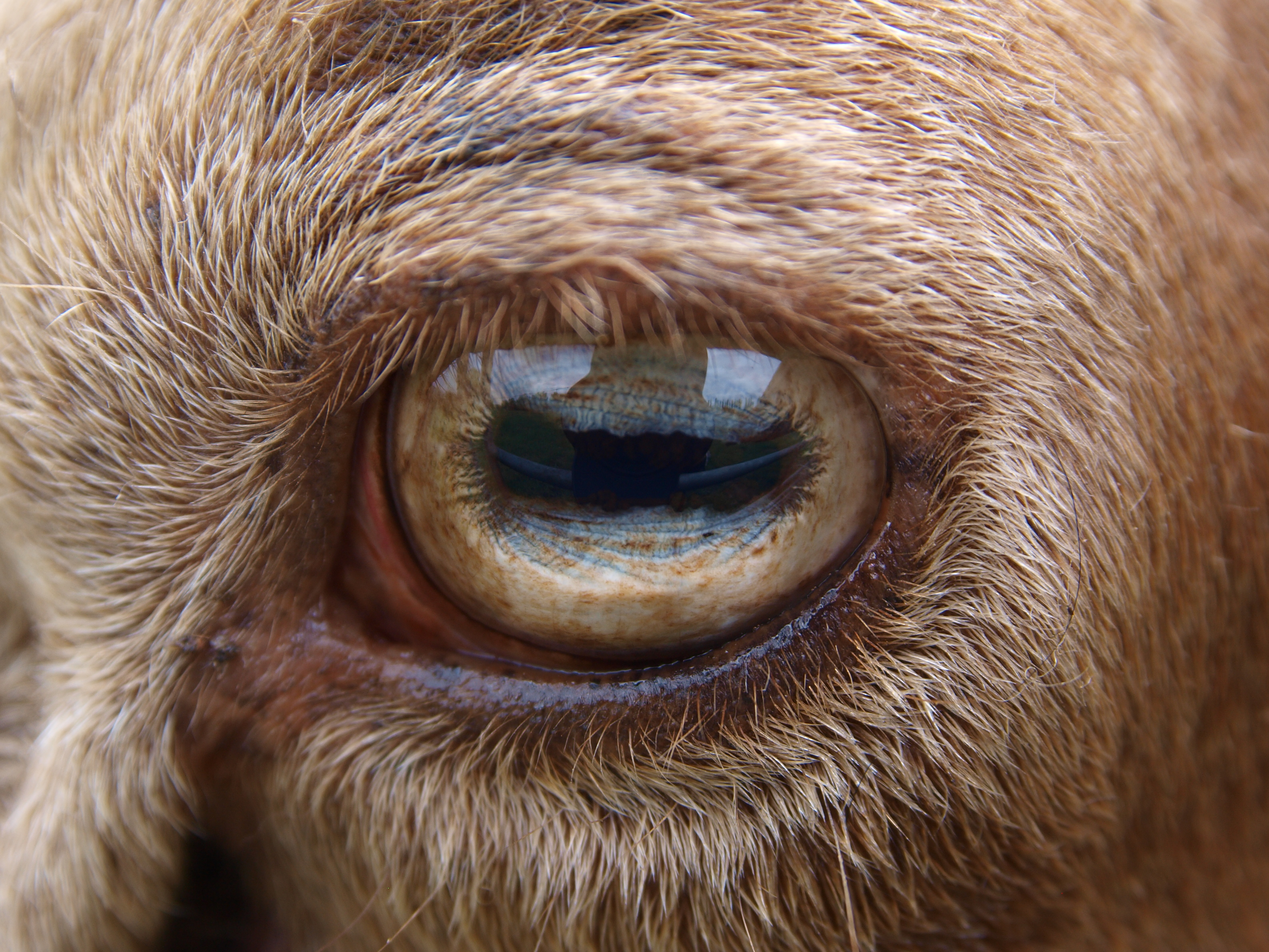 Left eye of an adult Coburger Fuchsschaf sheep